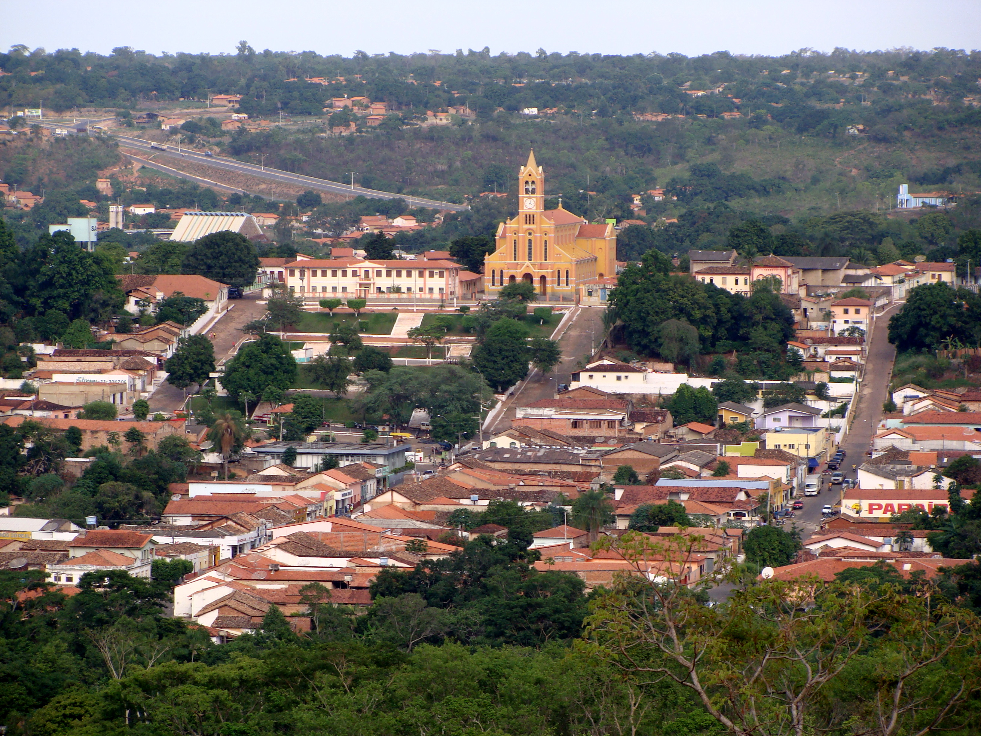 Downtown of the city of Grajaú, Maranhão, Brazil, in 2008.